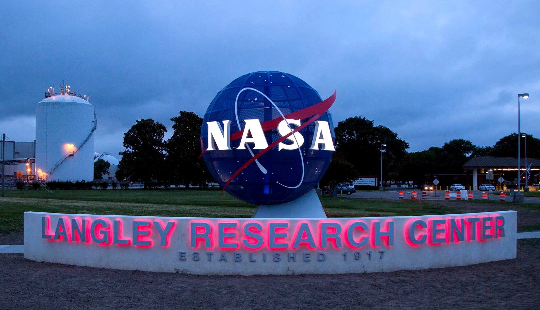 Entrance to NASA's Langley Research Center in Virginia, United States.